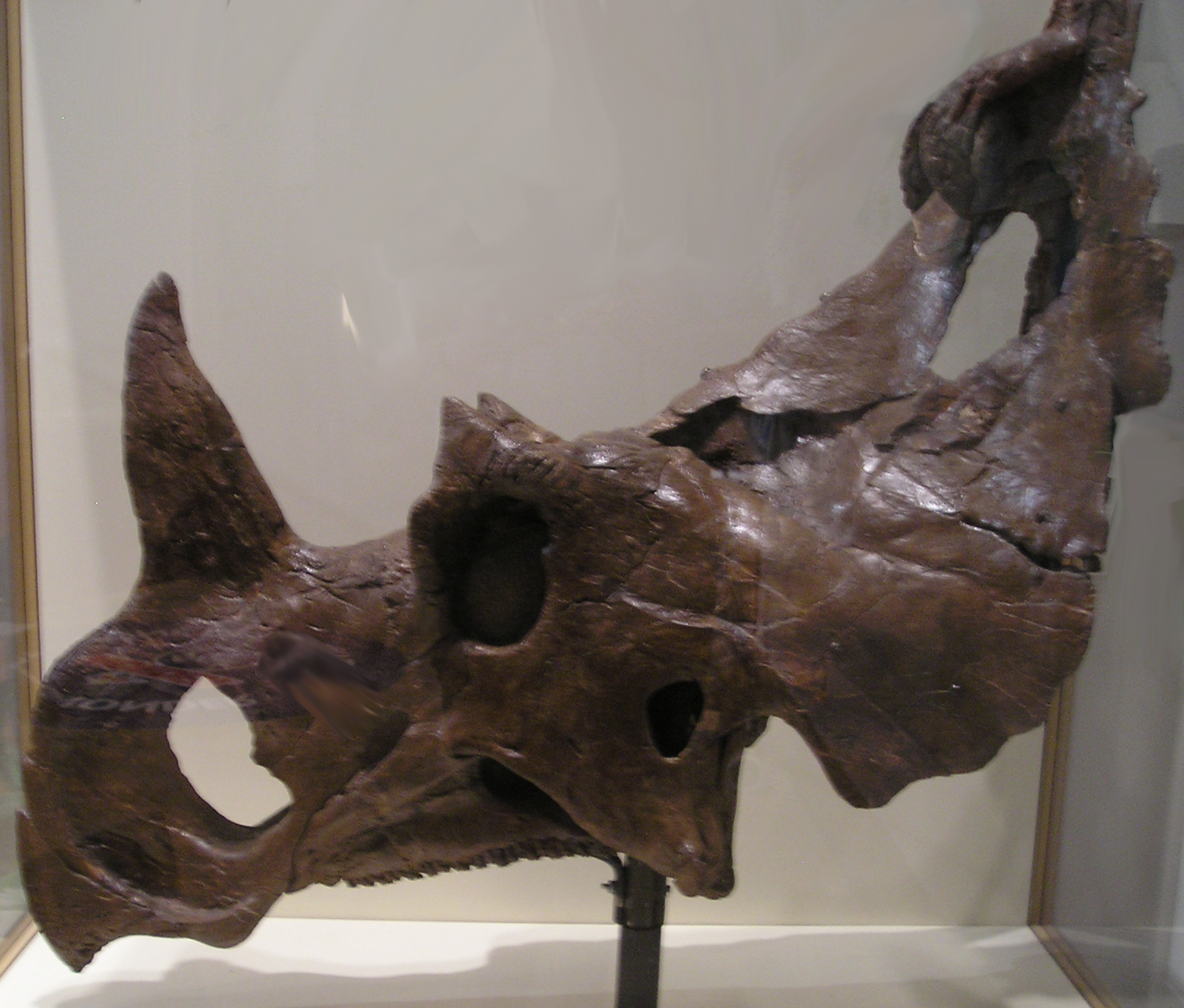 Centrosaurus apertus skull ROM 767 in the Royal Ontario Museum, Toronto.